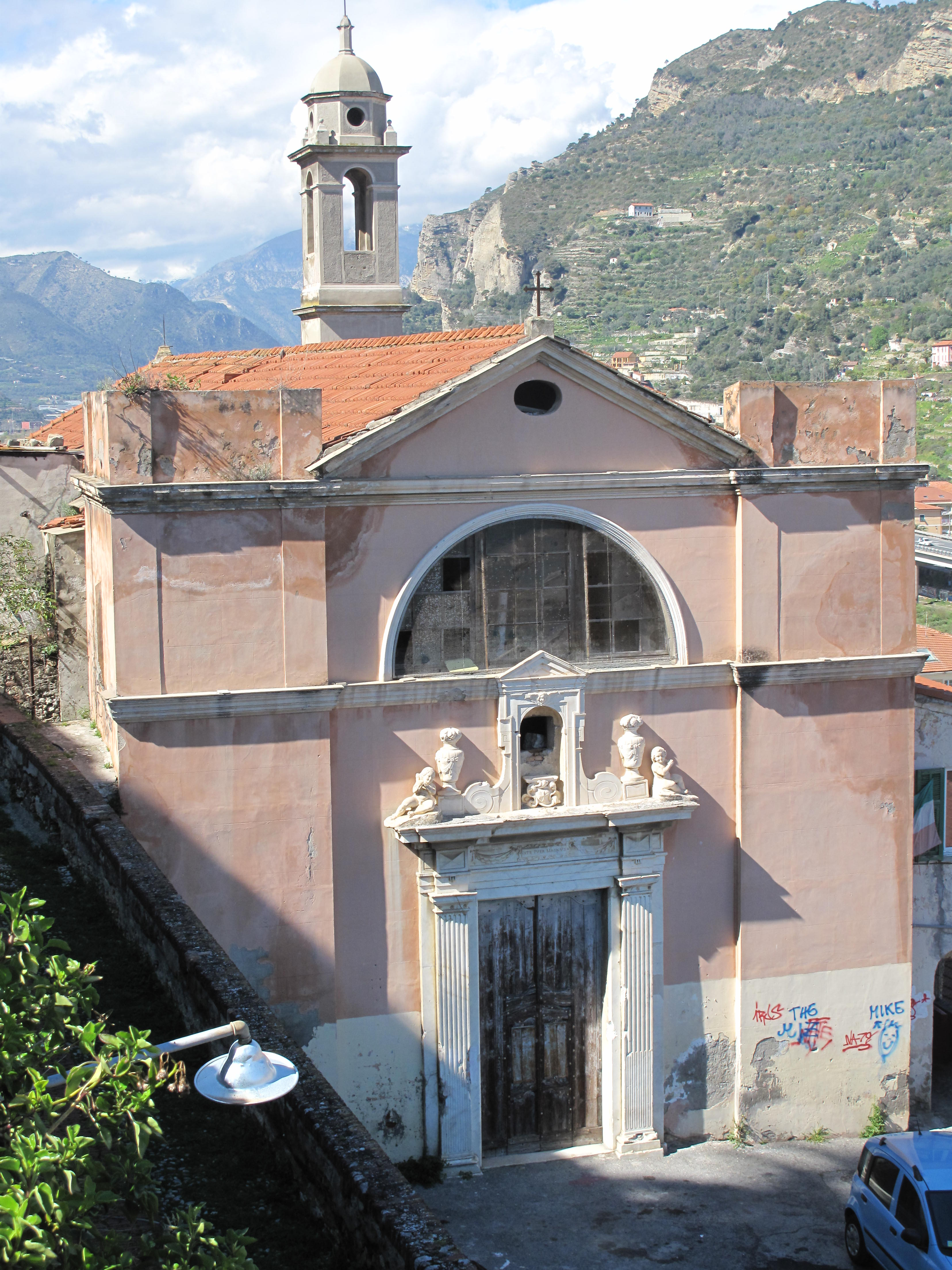 Church of the oratorio of San Giovanni Battista (John the Baptist) in Ventimiglia (Liguria, Italy).